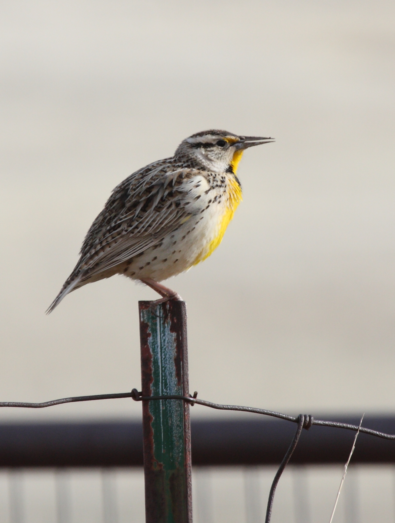 Eastern Meadowlark (Sturnella magna) seen at San Rafael Grassland, Arizona, USA